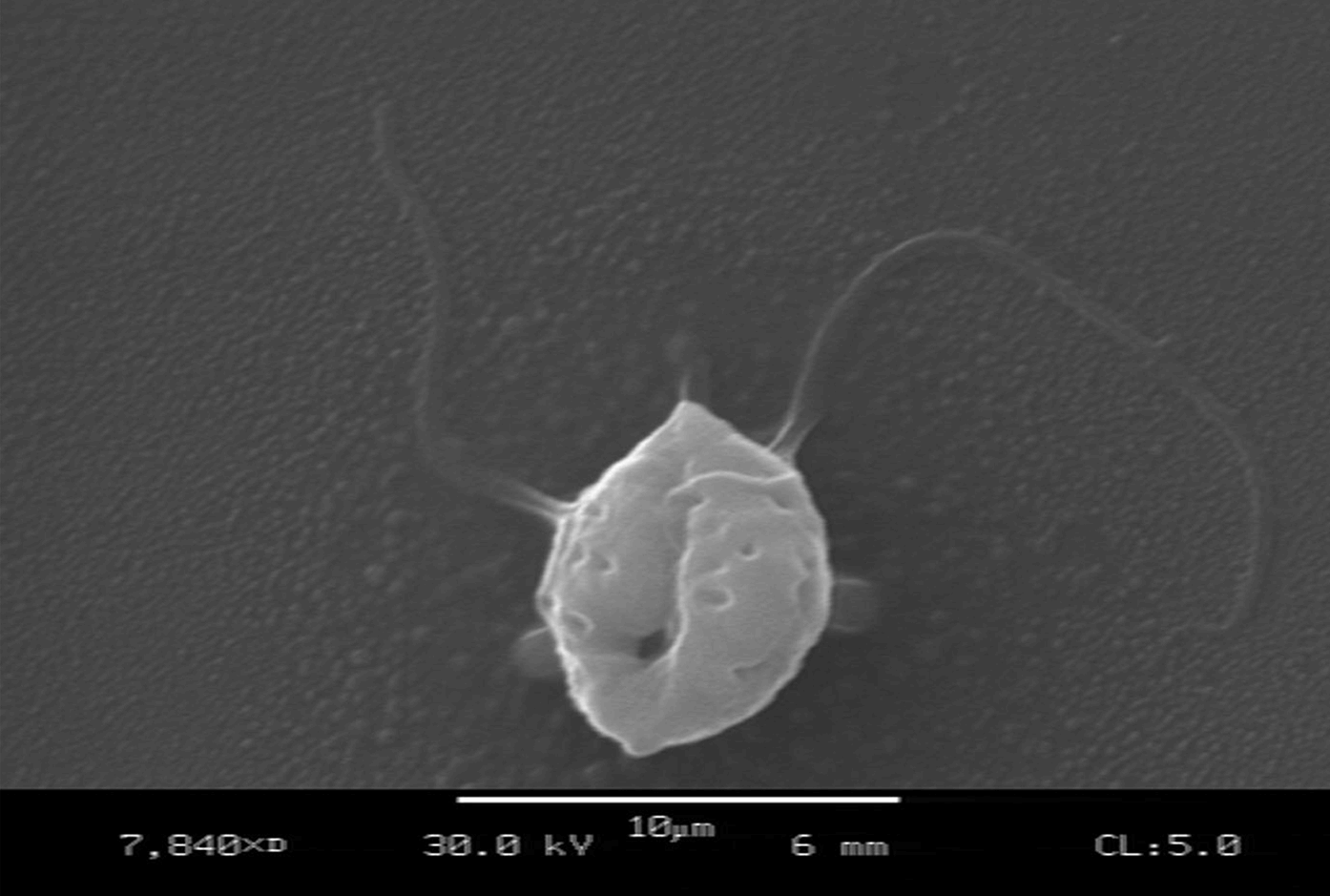 Reproductive Structure of the Phytophthora. – The asexual zoospore.